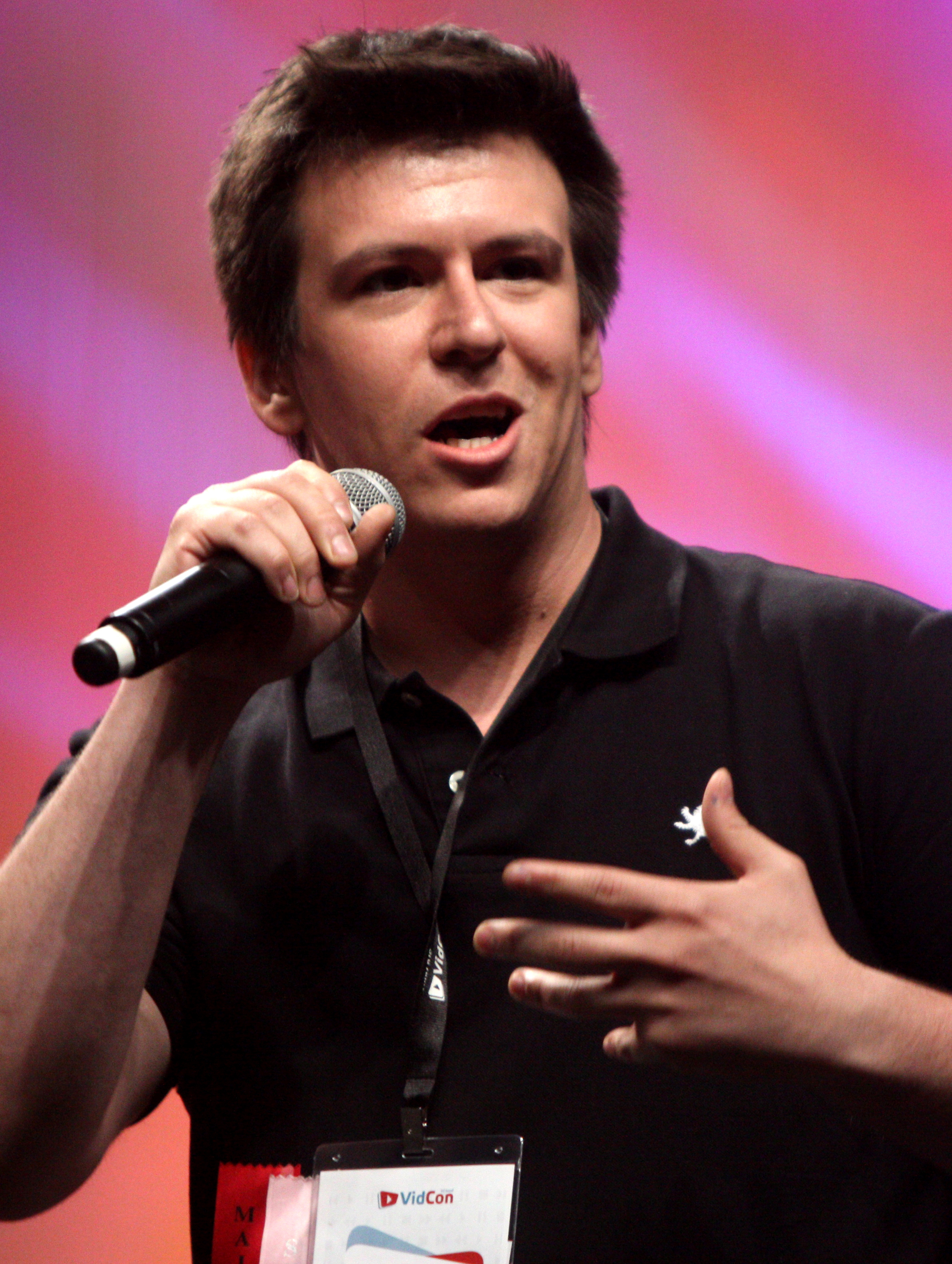 Philip DeFranco at the 2012 VidCon in Anaheim, California.